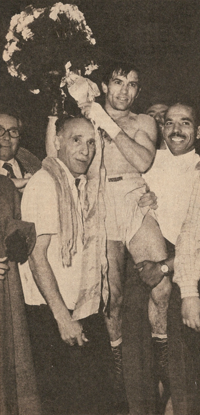 Pascual Perez (a. Pascualito), Argentine boxer. Flyweight Champion of the World (1954-1960), and Olympic Gold Medal at 1948 Summer Games (London).